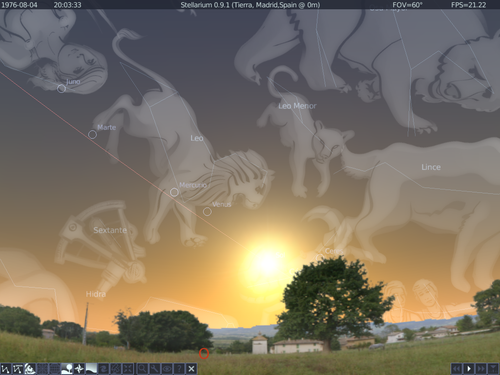 Screenshoot from Stellarium software